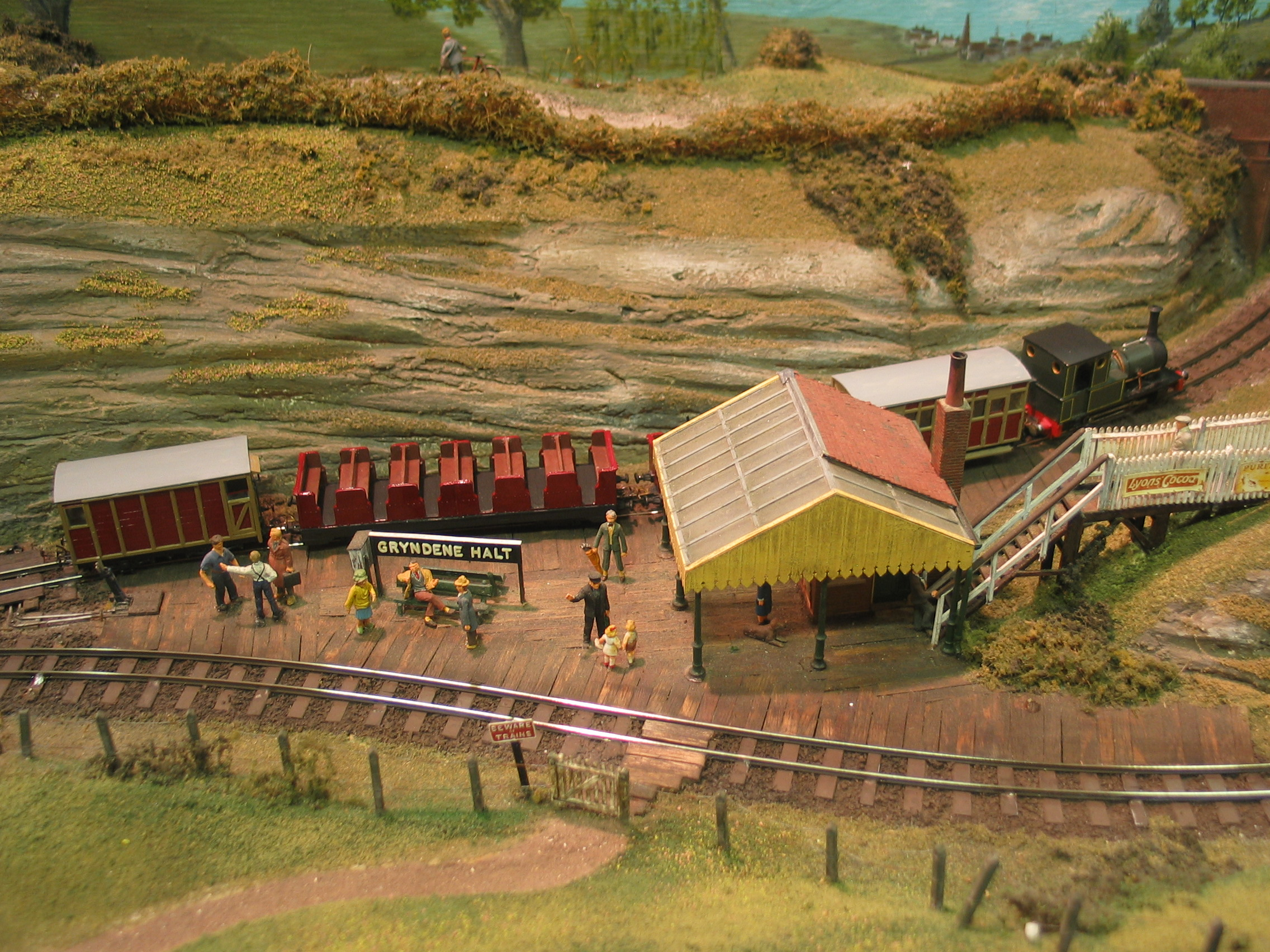 Model railroad - Gryndene Halt Evaleight Light Railway, Sussex Downs 009 group Talylln Railway "Dolgoch" and "toastrack" coaches. The foreground track leads to Upsands Harbour when the layout is fully assembled.